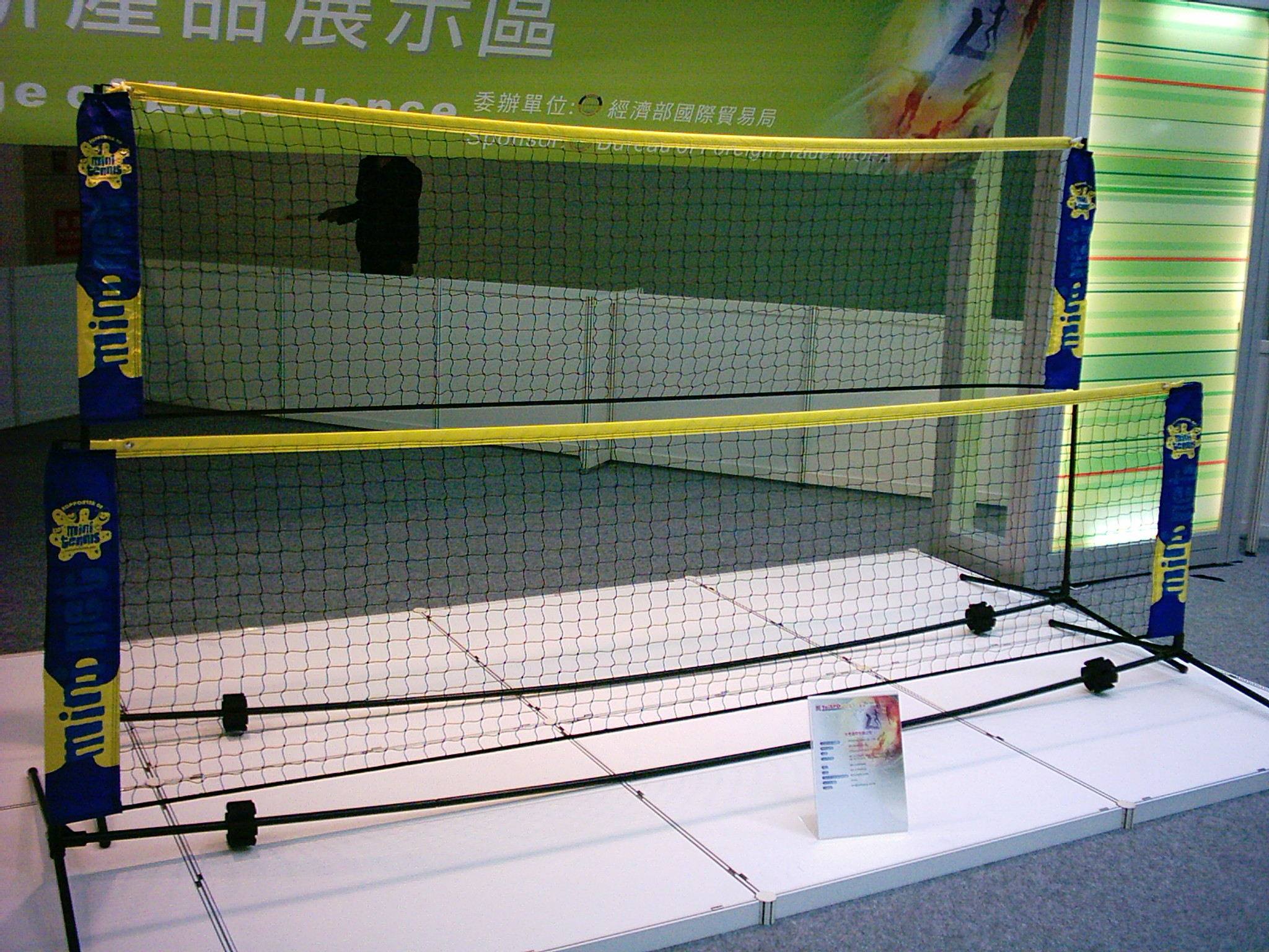 Mini Badminton Net by Sporting King Corp @ TaiSPO 2006 Inno-Product Area.